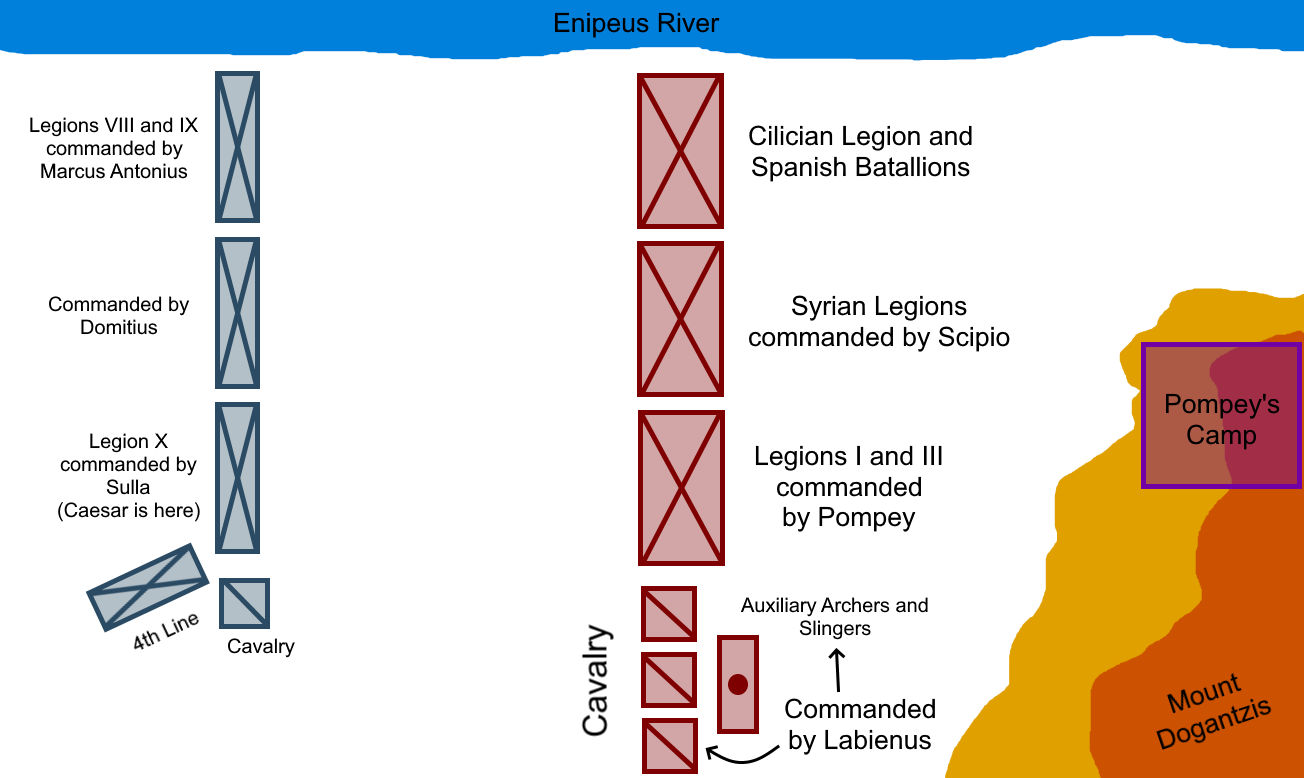 The positioning of troops at the battle of Pharsalus.